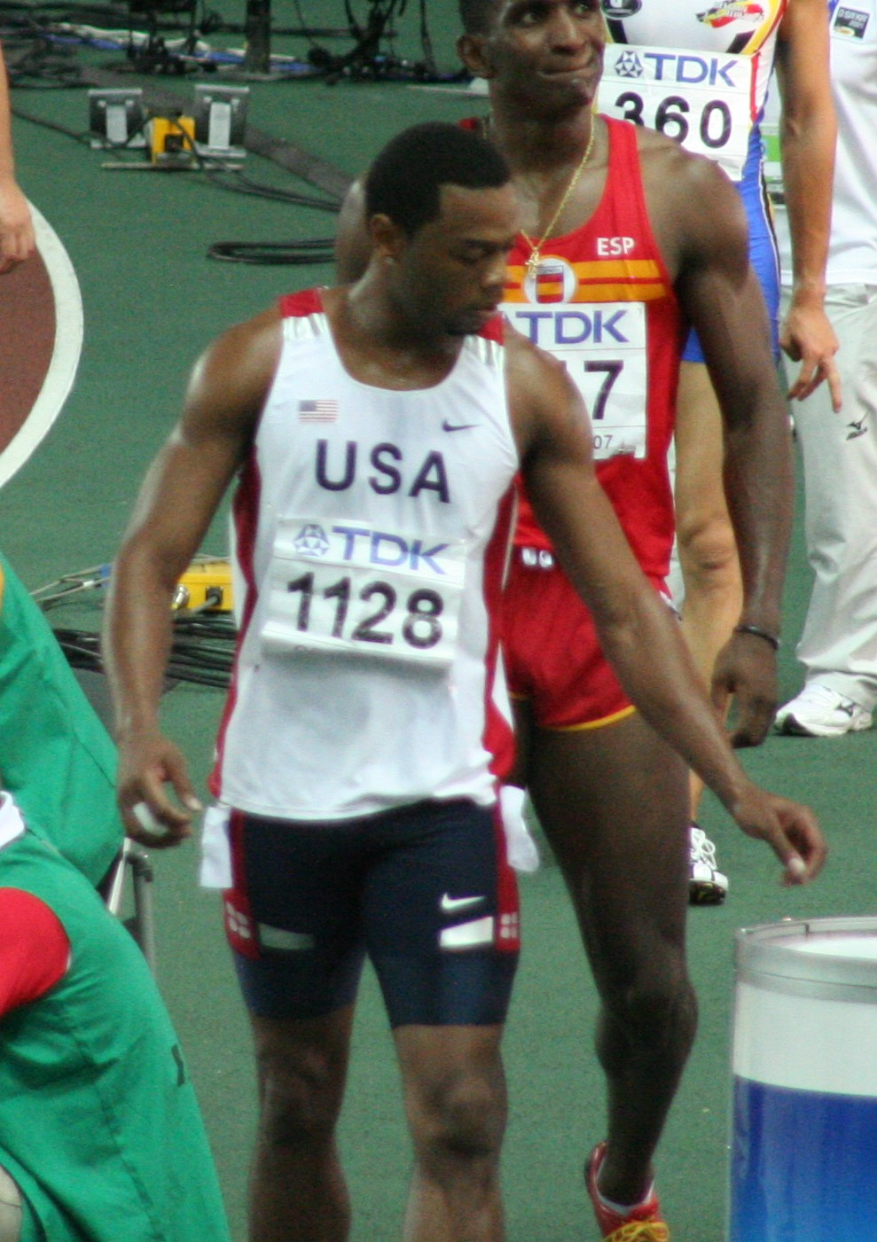 World Athletics Championships 2007 in Osaka - 110 metres hurdles runner David Payne after the semifinal